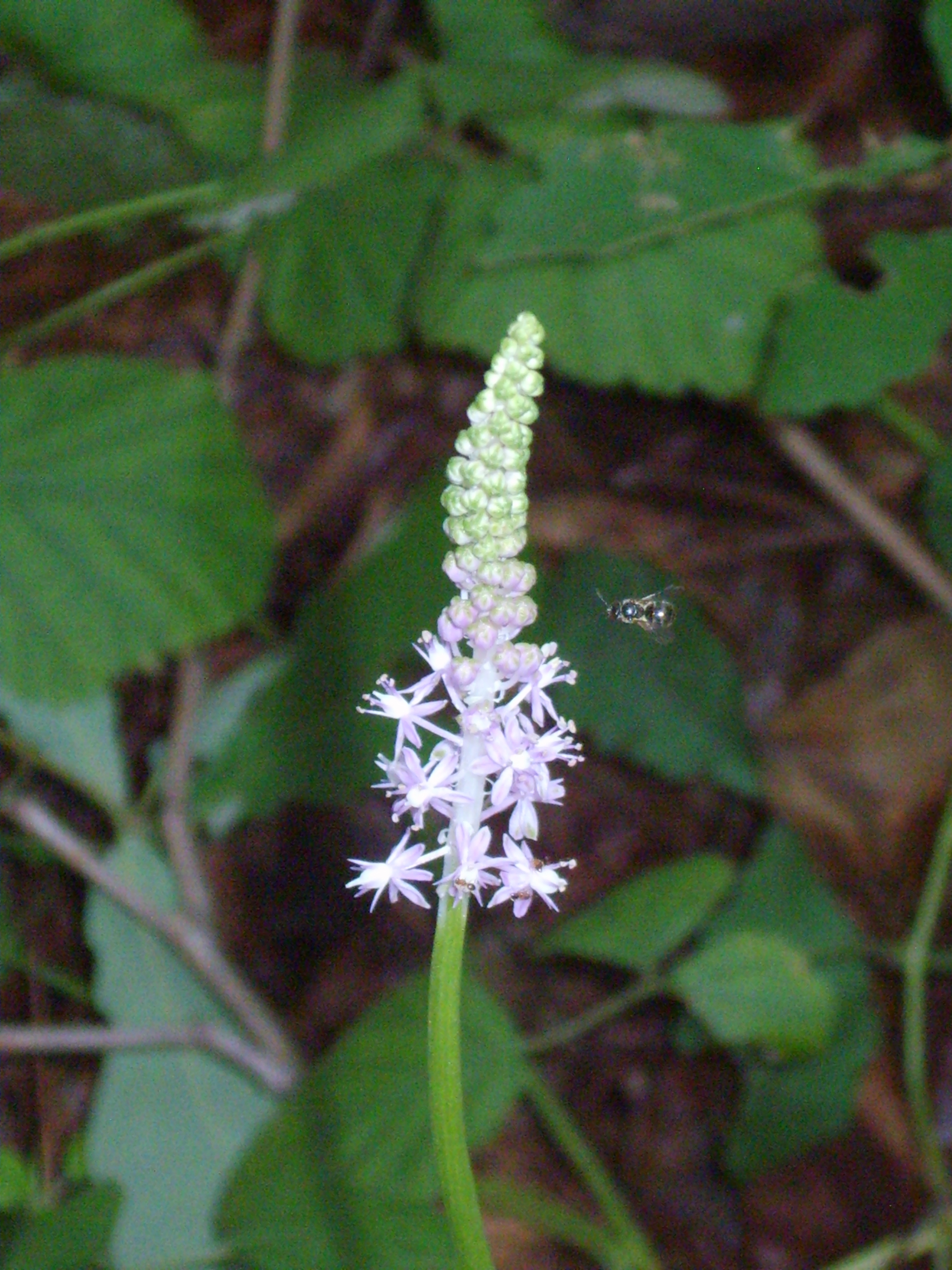 Barnardia japonica flowers in Incheon, Korea